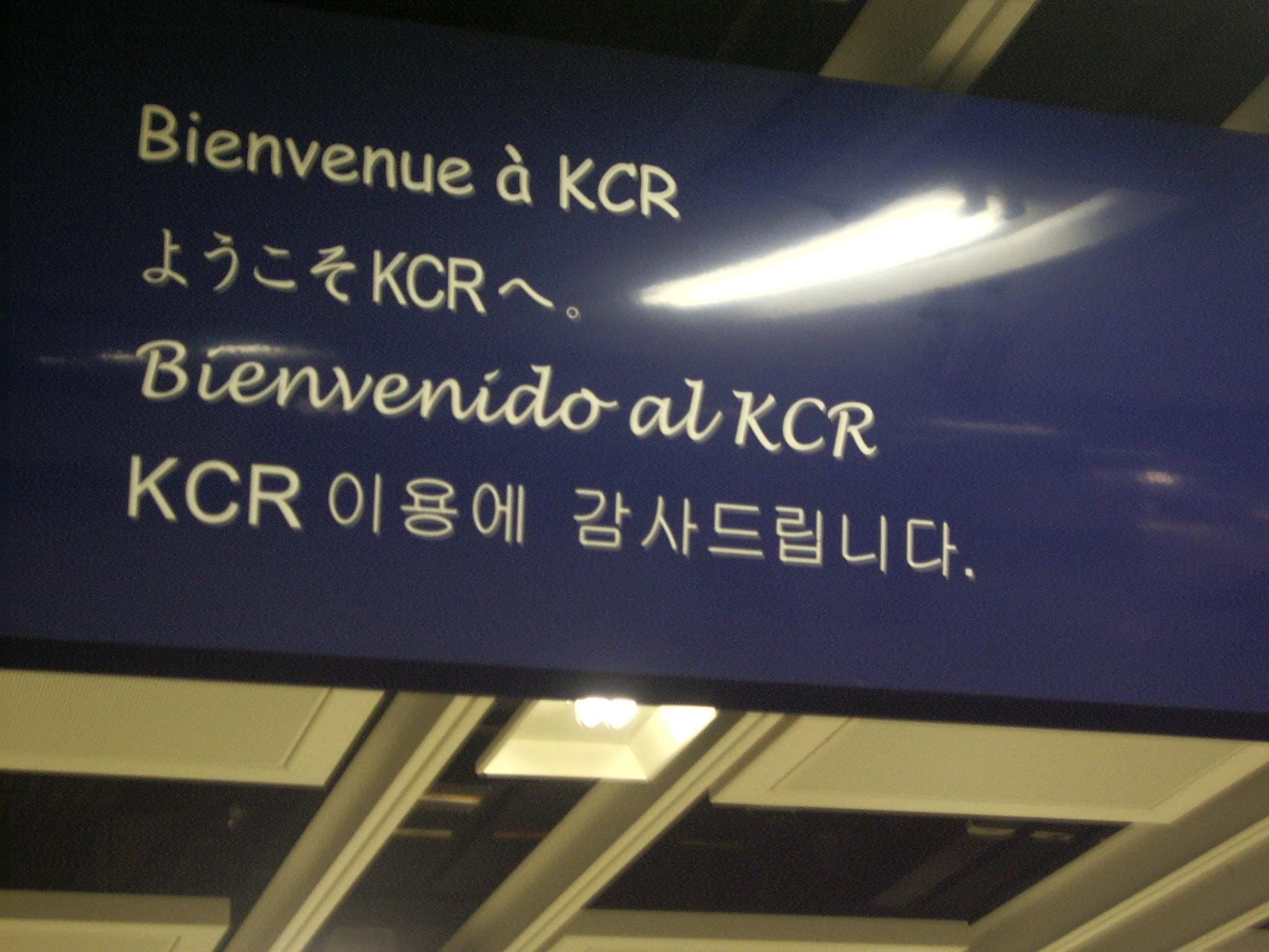 Multilingual welcome sign (French, Japanese, Spanish, Korean) above ticket gates on KCR East Tsim Sha Tsui station, Hong Kong